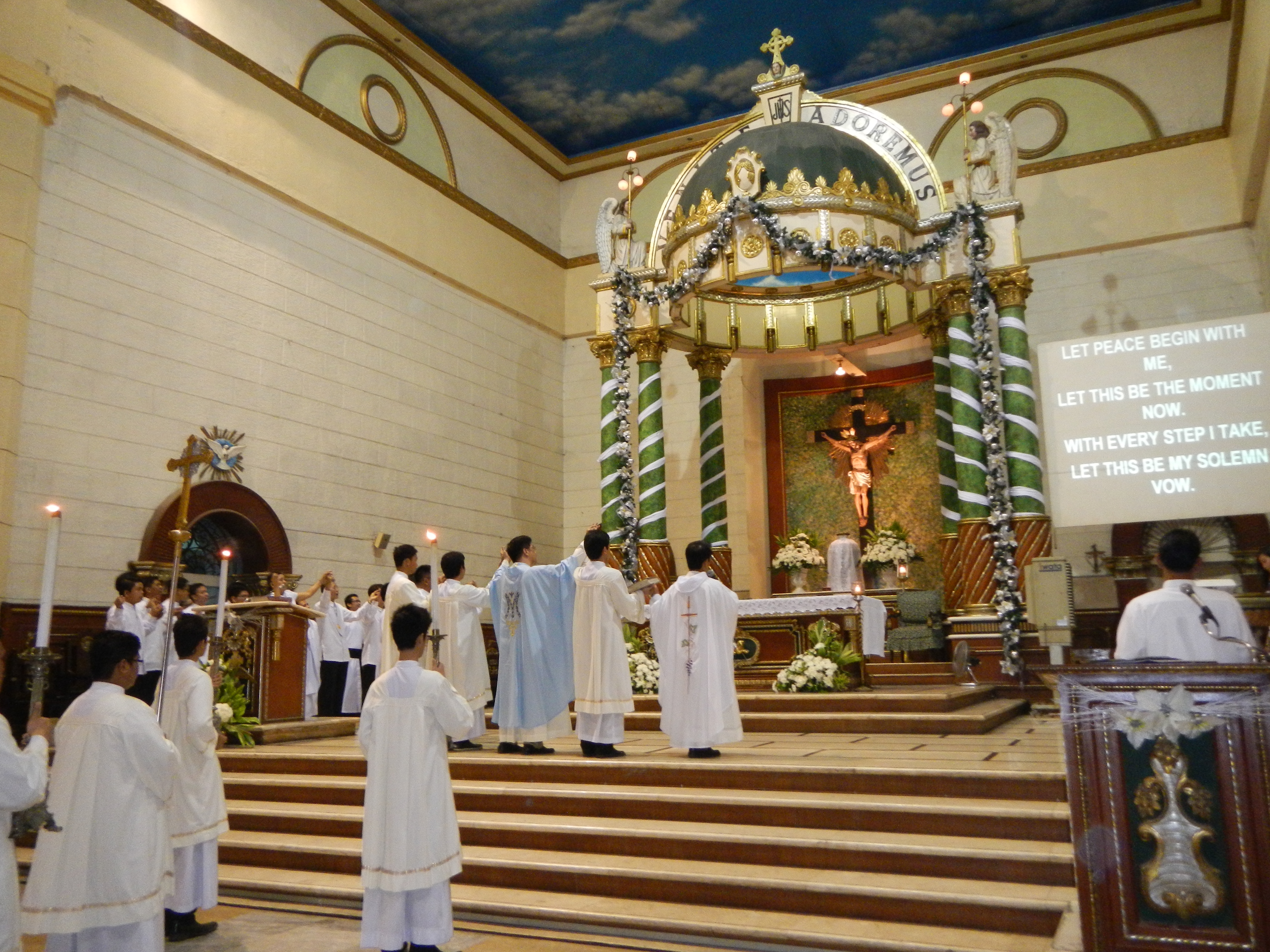 Saint Agustin of Hippo Parish Church[1][2][3]Baliuag, Bulacan